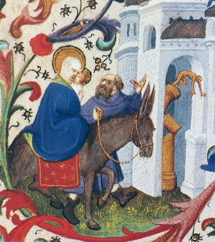 Toppling of the Pagan Idols (Flight into Egypt); Isaiah 19:1, Pseudo-Matthew 22-23